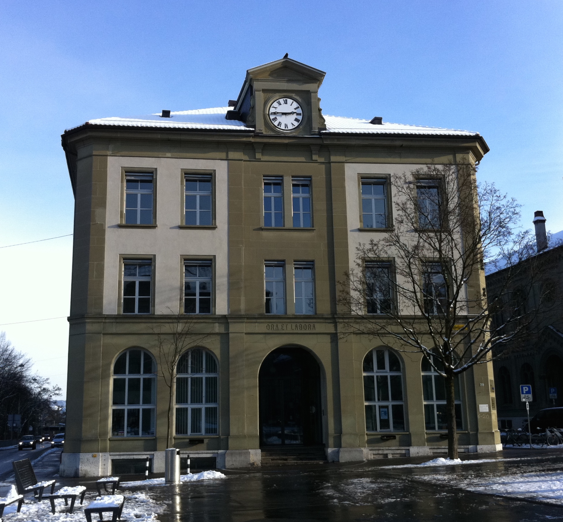 Main Buildung of the "NMS Bern" School at Waisenhausplatz 29 in Bern (Switzerland)